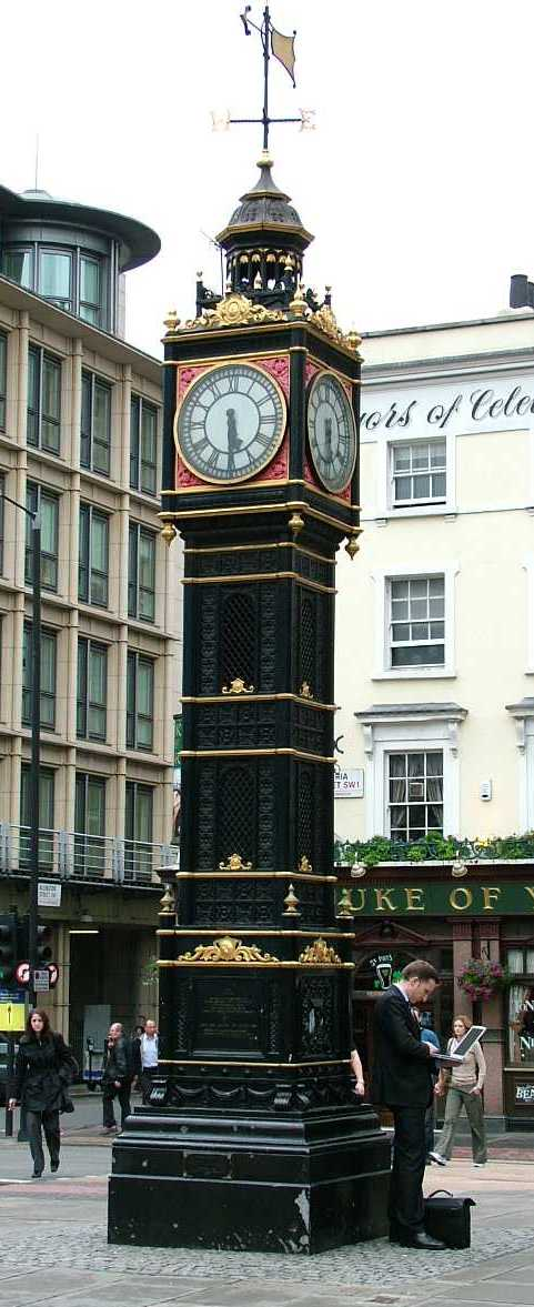 Little Ben - Victoria Street - City of Westminster - London - England